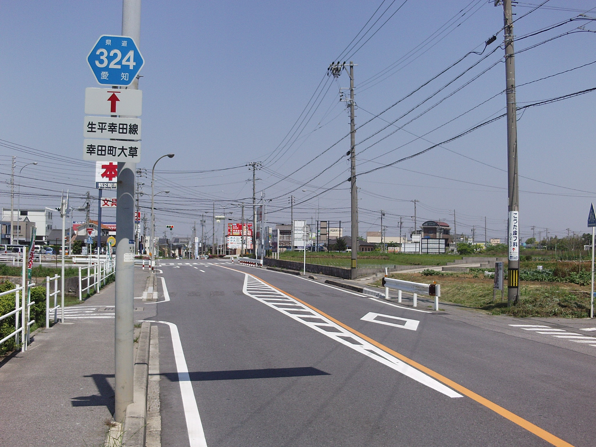 Aichi prefectural road No.324 in Okusa, Kota-cho, Nukata-gun, Aichi.